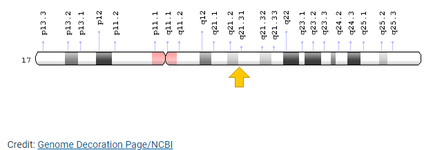 17q21.31